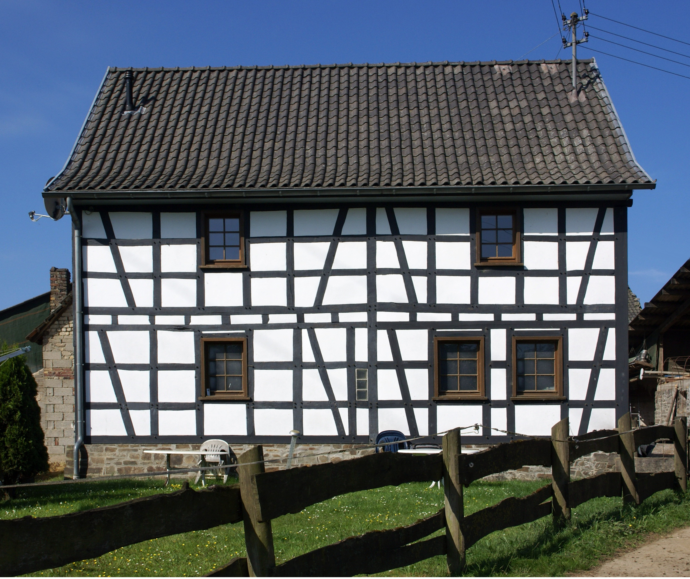 Half-timbered house in Gratzfeld, Schwirzpohler Straße 26